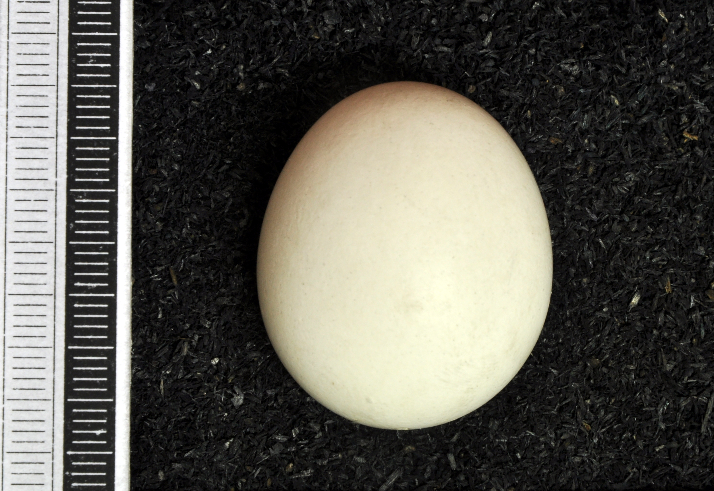 Orange-winged amazon Amazona amazonica , egg, Coll. Museum Wiesbaden